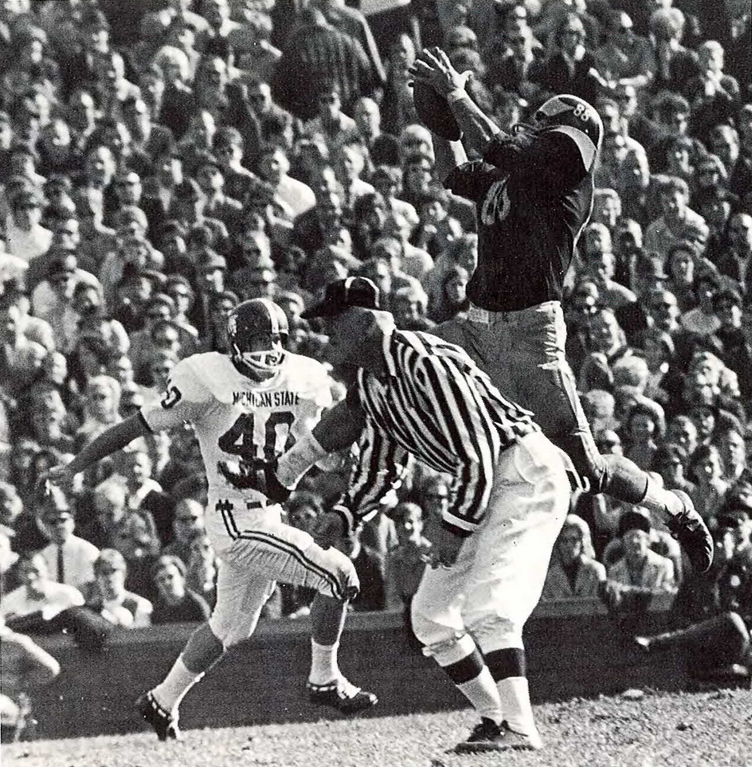 Photograph of Jim Mandich (No. 88) leaping for ball against Michigan State